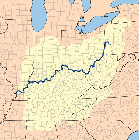 This is a map of the Ohio River Watershed. I, Karl Musser, created it based on USGS data.